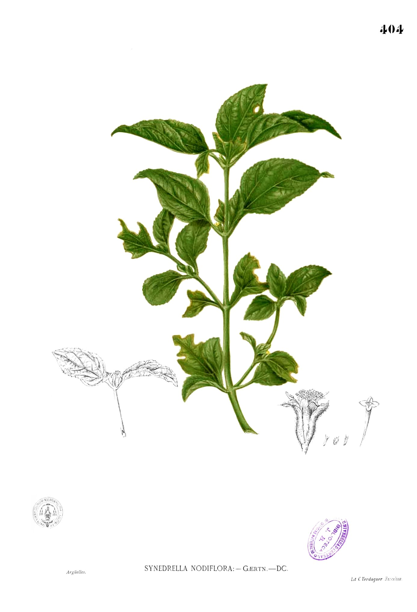 Plate from book